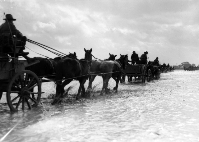 Photograph of ration convoy at Esdud 7 January 1918 Other information Out of copyright access unrestricted